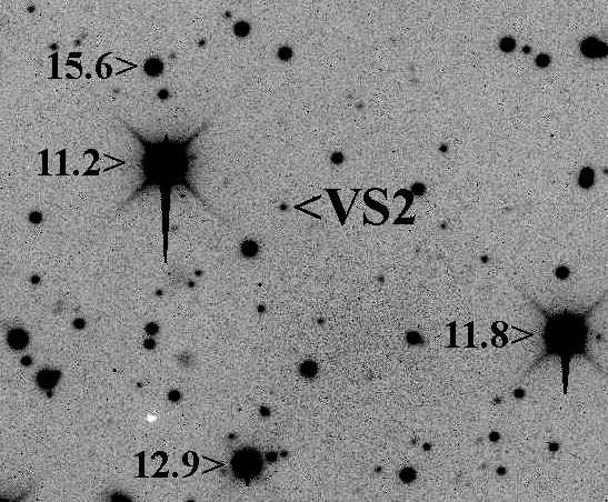 12 minute exposure of plutino dwarf planet candidate (84922) 2003 VS2 with a 24" telescope. 2003 VS2 is about apparent magnitude 19.8 in this image taken at 2010-01-10 04:00 UT. The blooming star on the left is magnitude 11.2. VS2 is about 2,700 times fainter than the blooming star and is approaching the limiting magnitude of a 12 minute ccd photo with a 24" telescope. For comparison the apparent magnitudes of some of the stars are labeled.